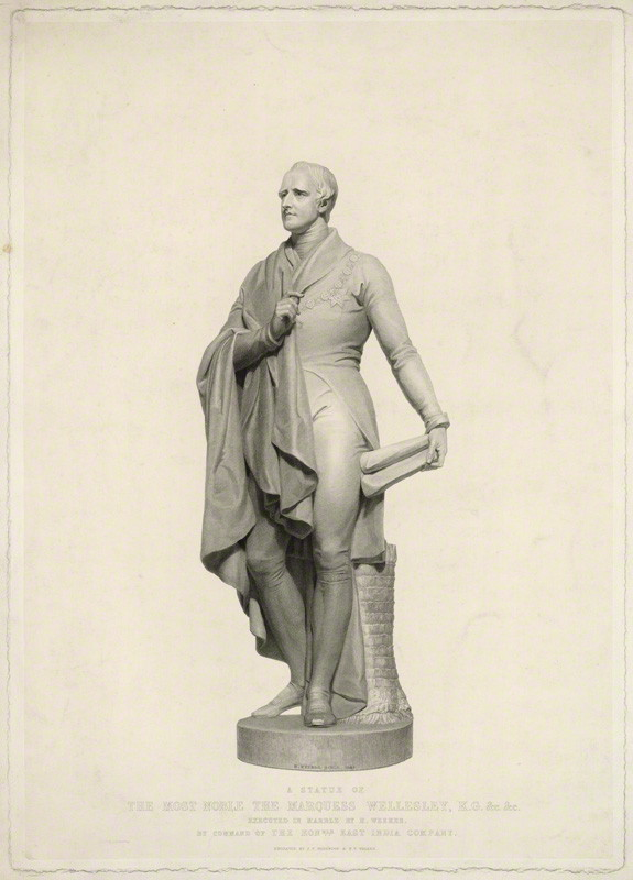 Portrait of Richard Wellesley, 1st Marquess Wellesley (1760-1842) Engraving: 22 7/8 in. x 16 1/4 in. (580 mm x 413 mm) plate size; 24 5/8 in. x 18 1/8 in. (626 mm x 460 mm) paper size